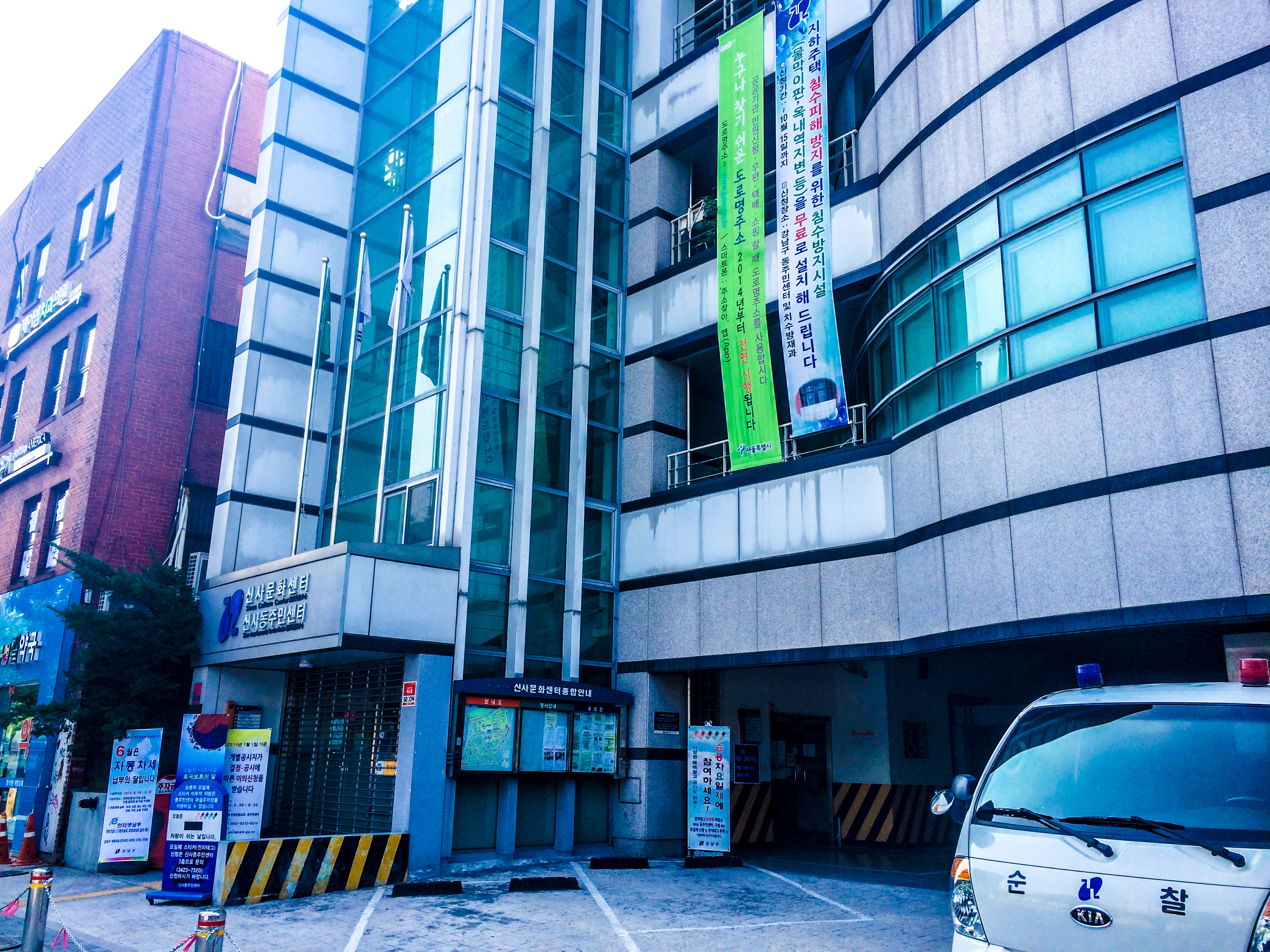 Sinsa-dong Comunity Service Center (Gangnam-gu)